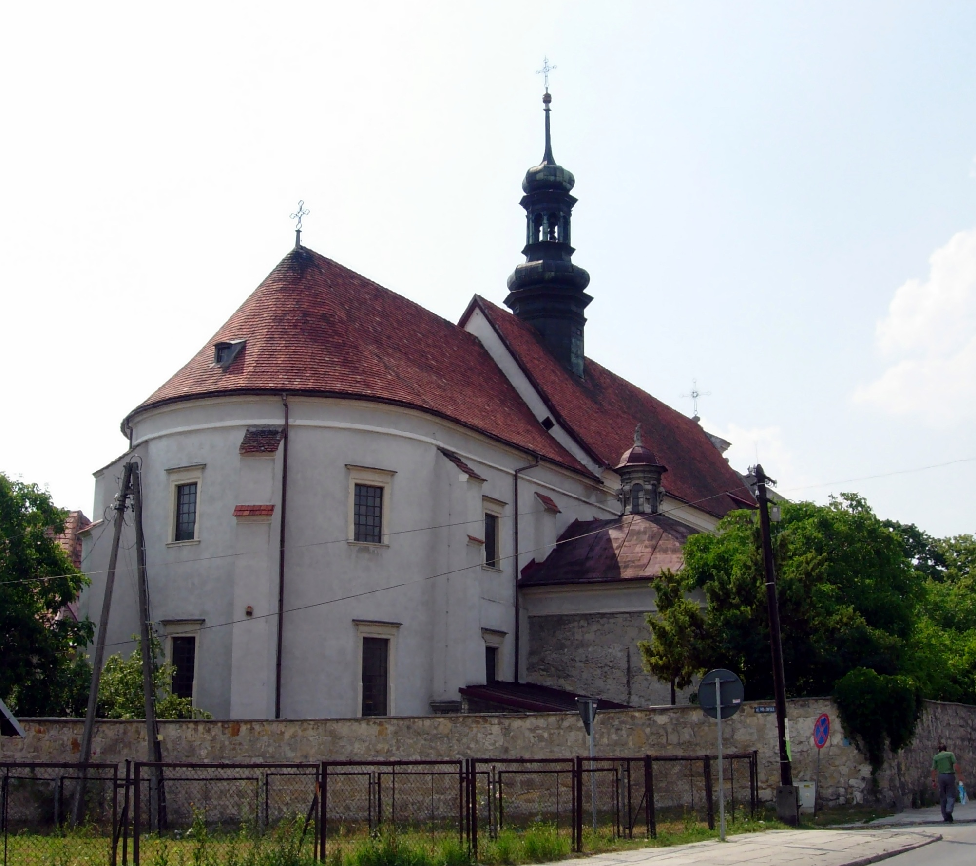 The Visitation of the Blessed Virgin Mary Church in Pińczów (Mirów quarter)